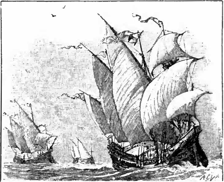 Drawing of the three ships of the first voyage of Christopher Columbus to the New World — the Santa María, the Pinta, and the Niña